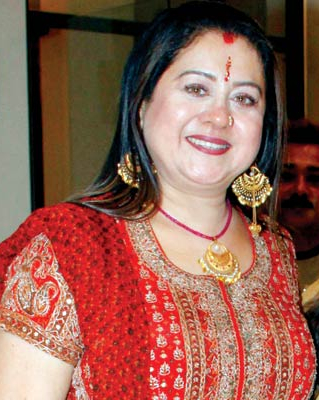 Photo